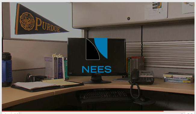 NEEShub presentation snapshot. Courtesy of The George E. Brown, Jr. Network for Earthquake Engineering Simulation.